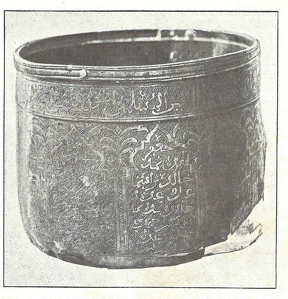 Vessel for measuring the Sa' of Zakat al-fitr